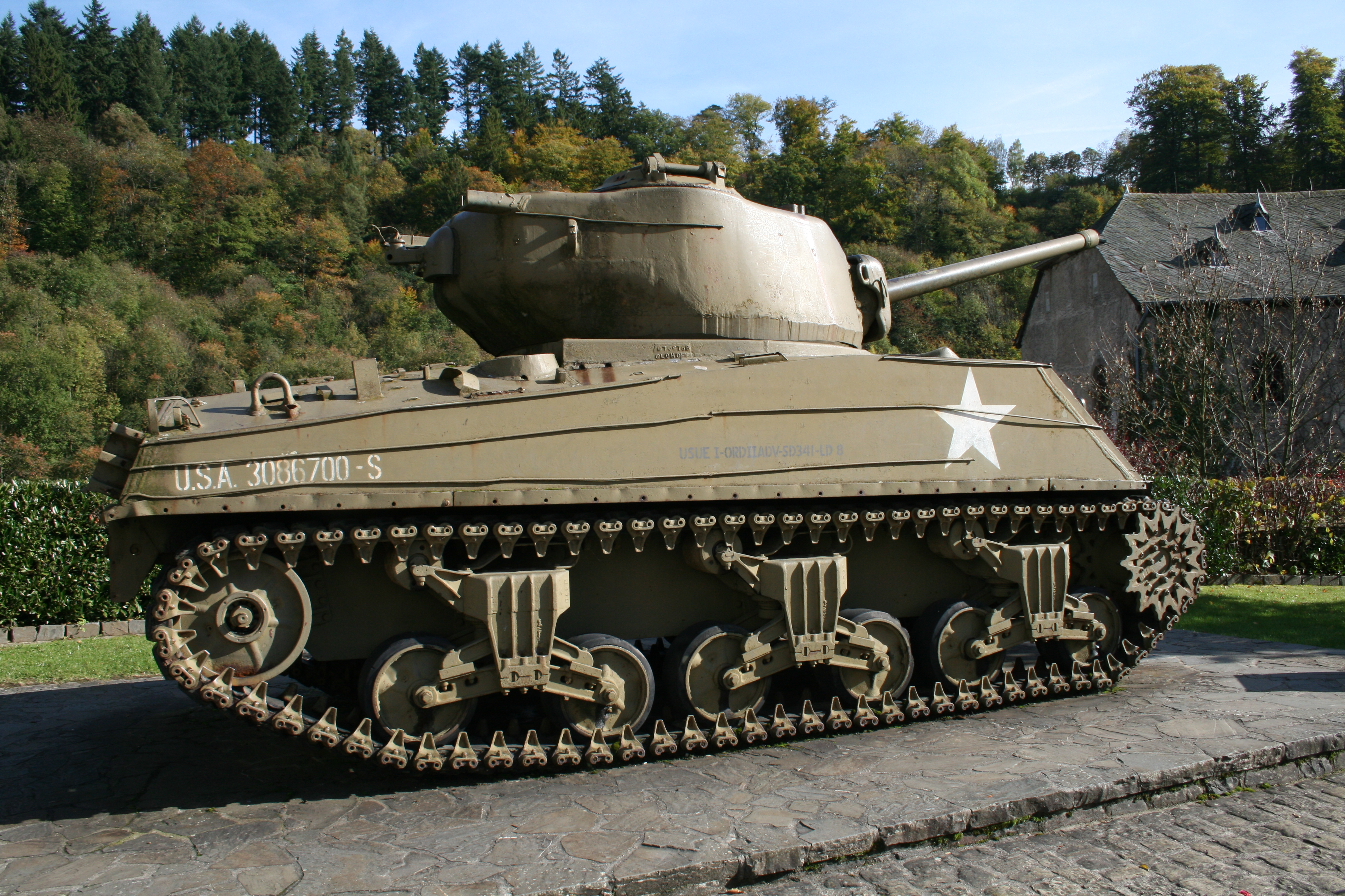 Shermans M4 (company B, 2nd tank bataillon - 9th armored division) put out of action on decembre 17, 1944 at the gate of the castle of Clervaux (Luxembourg).